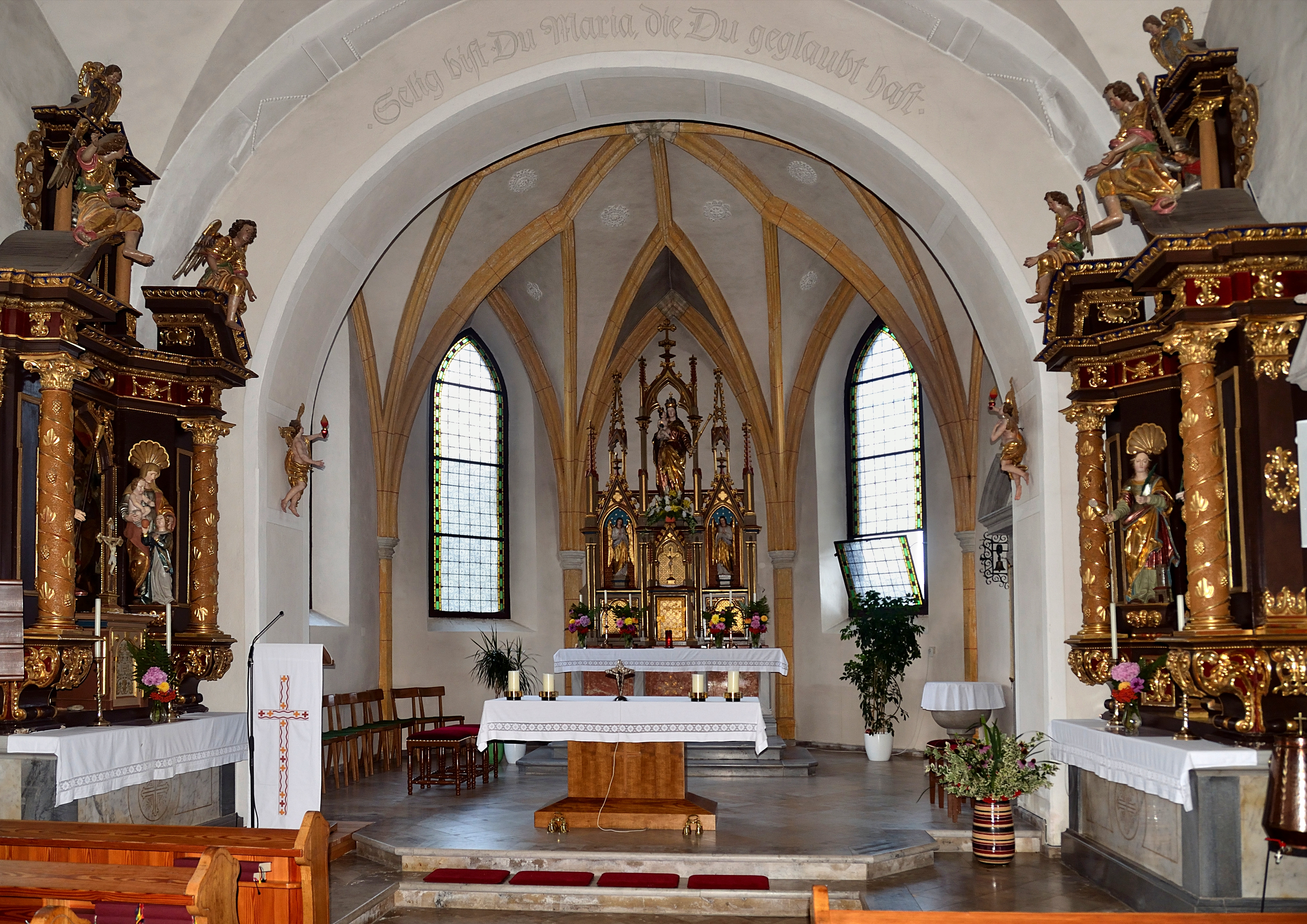 Catholic parish church of the Visitation in Koglhof, Styria. Included in heritage protection are the fence (hard to find), the gate and the shrines with the four evangelists.